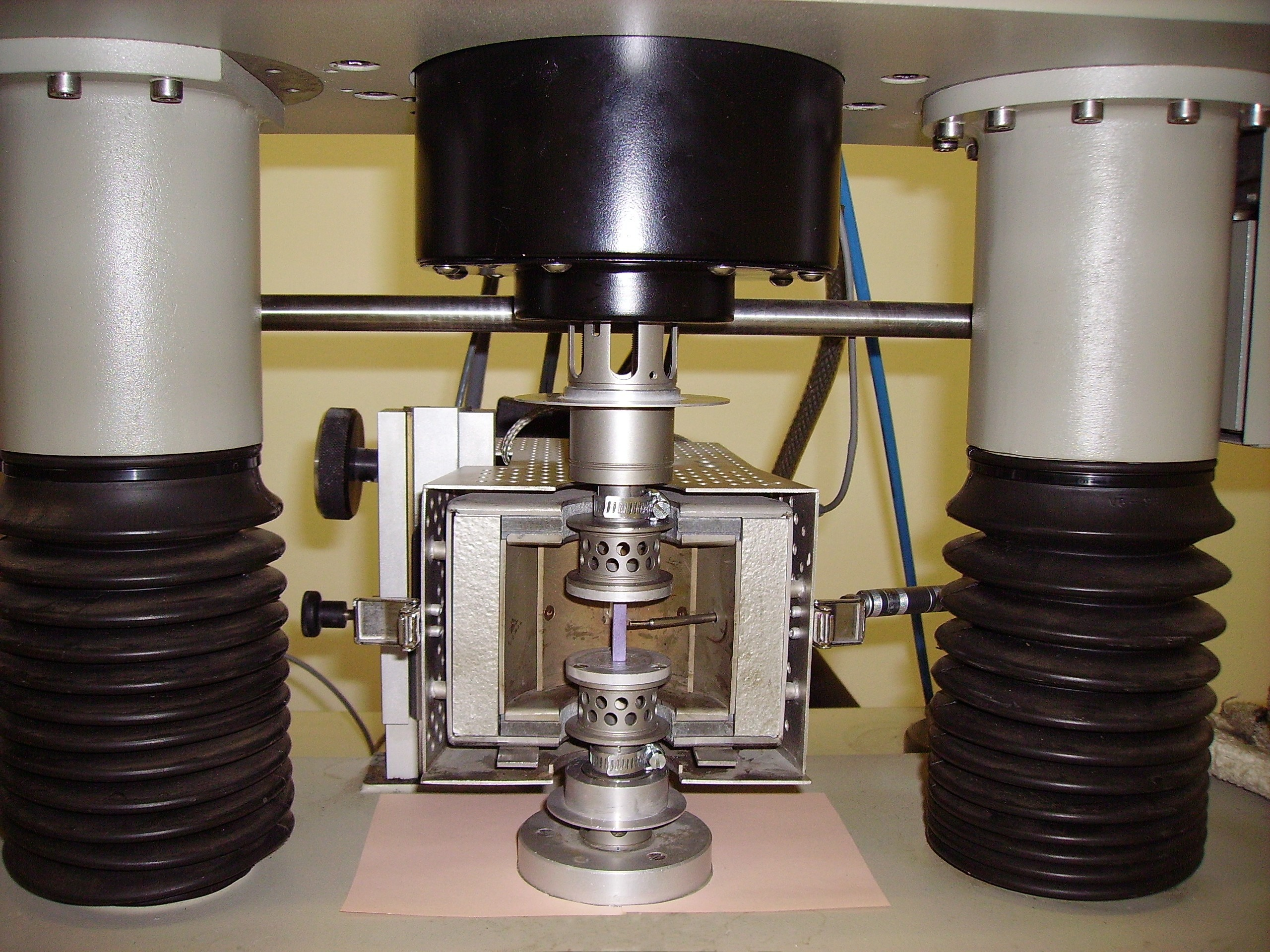 Measuring column of a Viscoanalyzer - a device by Metravib Instruments, model VA-3000 year 2000.